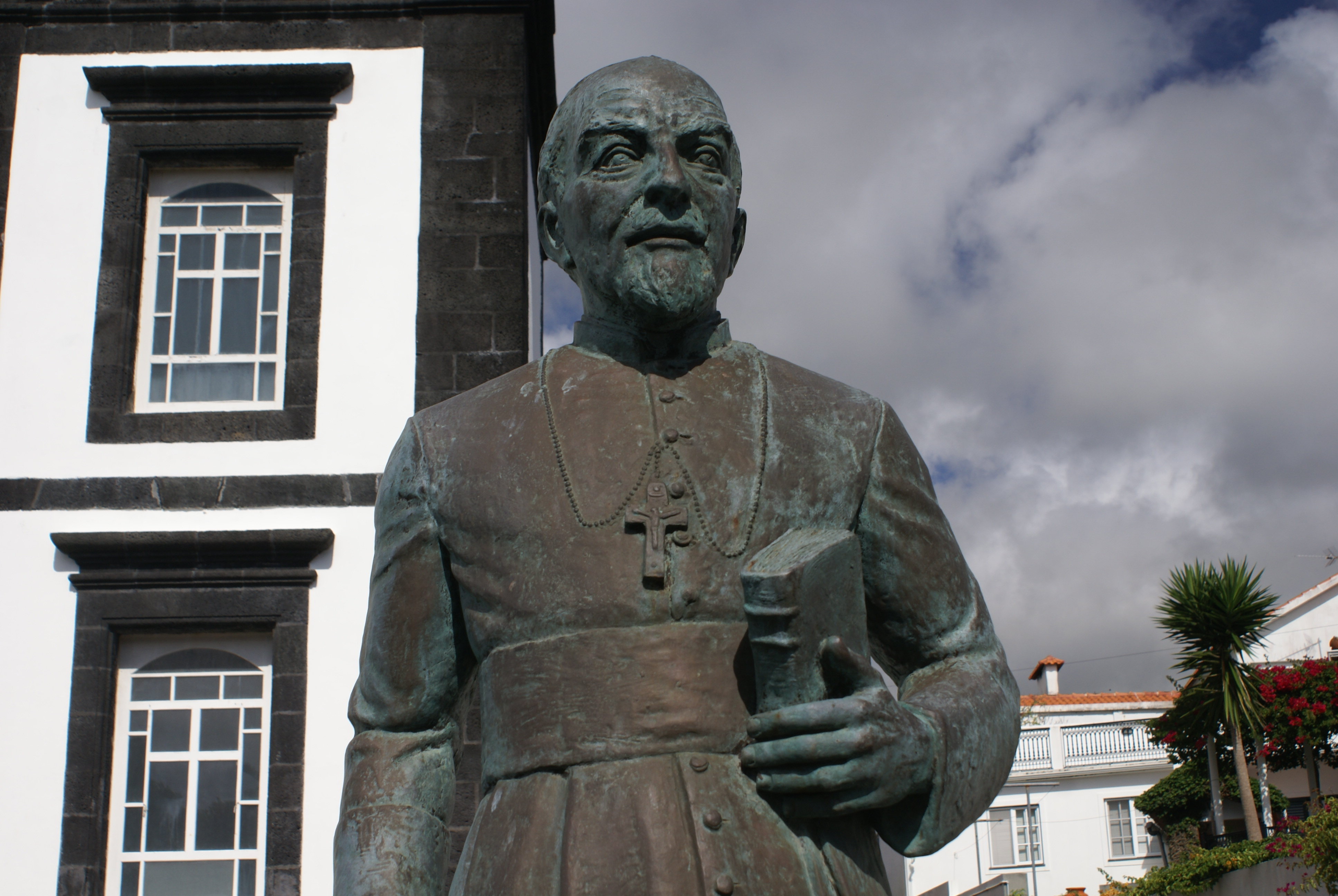 D. Jaime Garcia Goulart, busto existente junto à Igreja de Nossa Senhora das Candeias, Candelária, concelho da Madalena do Pico, ilha do Pico, Açores, Portugal